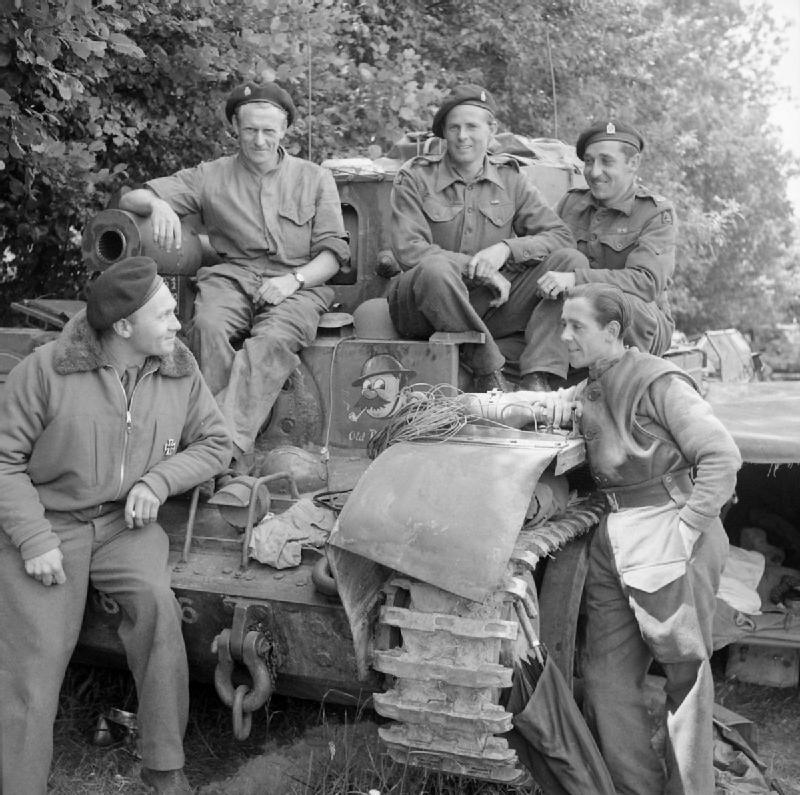 Captain L Cotton MM (left, wearing German Iron Cross!) with his Cromwell VI tank and crew of 4th County of London Yeomanry, 7th Armoured Division, 17 June 1944. Cotton had been promoted to captain following the regiment's action at Villers Bocage.